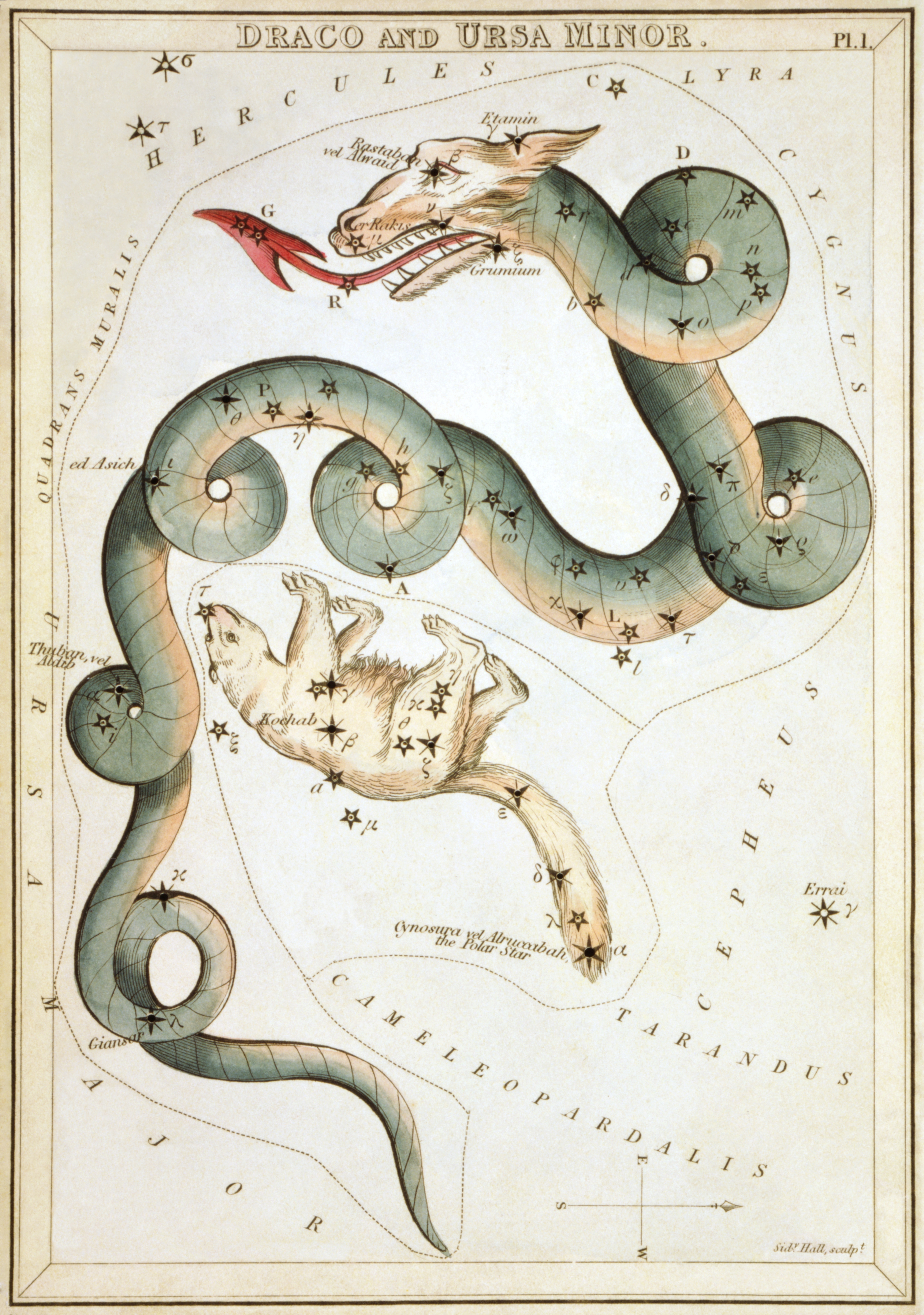 "Draco and Ursa Minor", plate 1 in Urania's Mirror, a set of celestial cards accompanied by A familiar treatise on astronomy ... by Jehoshaphat Aspin. London. Astronomical chart, 1 print on layered paper board : etching, hand-colored.